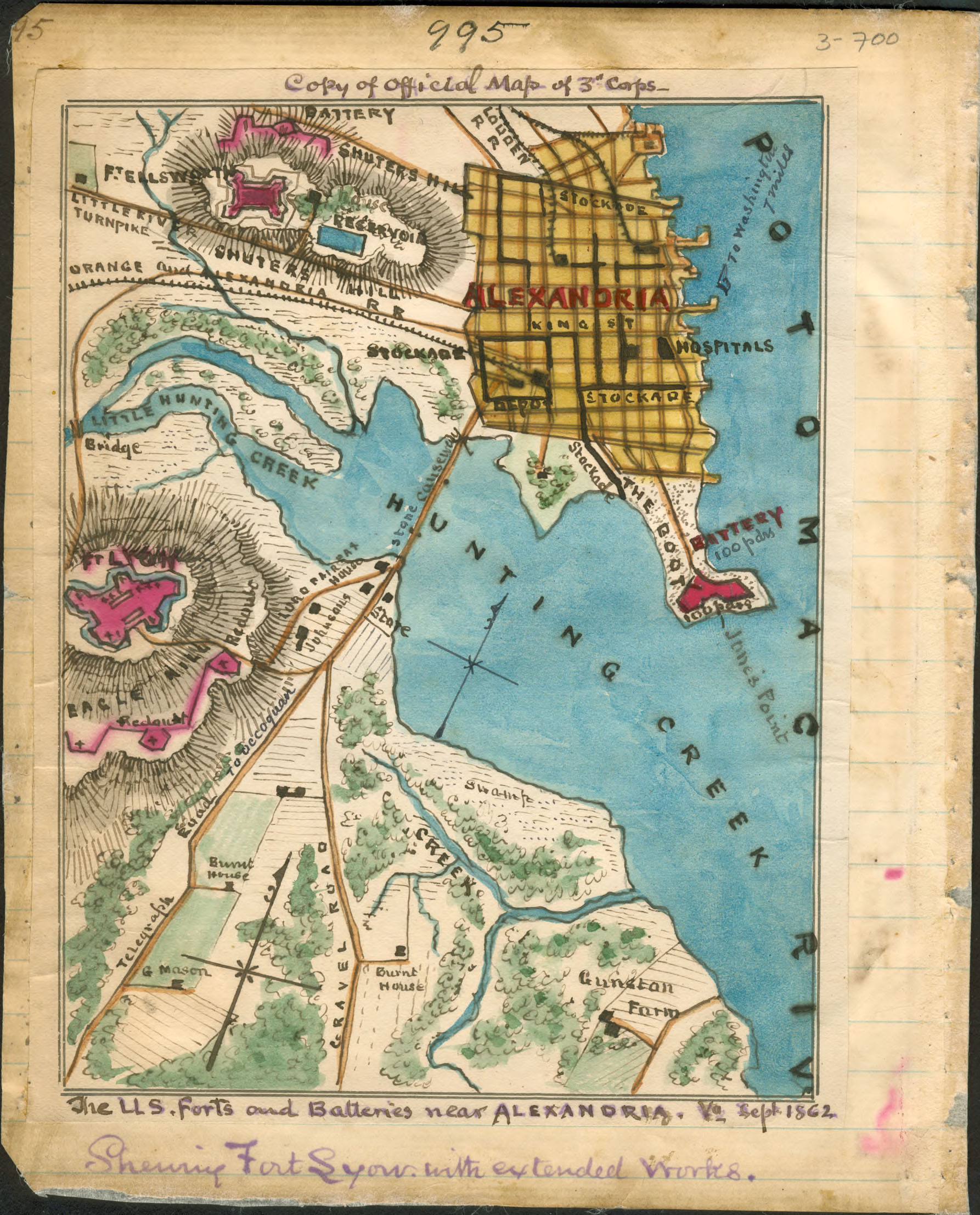 A map of Alexandria, Virginia, showing Forts Ellsworth, and Lyon.